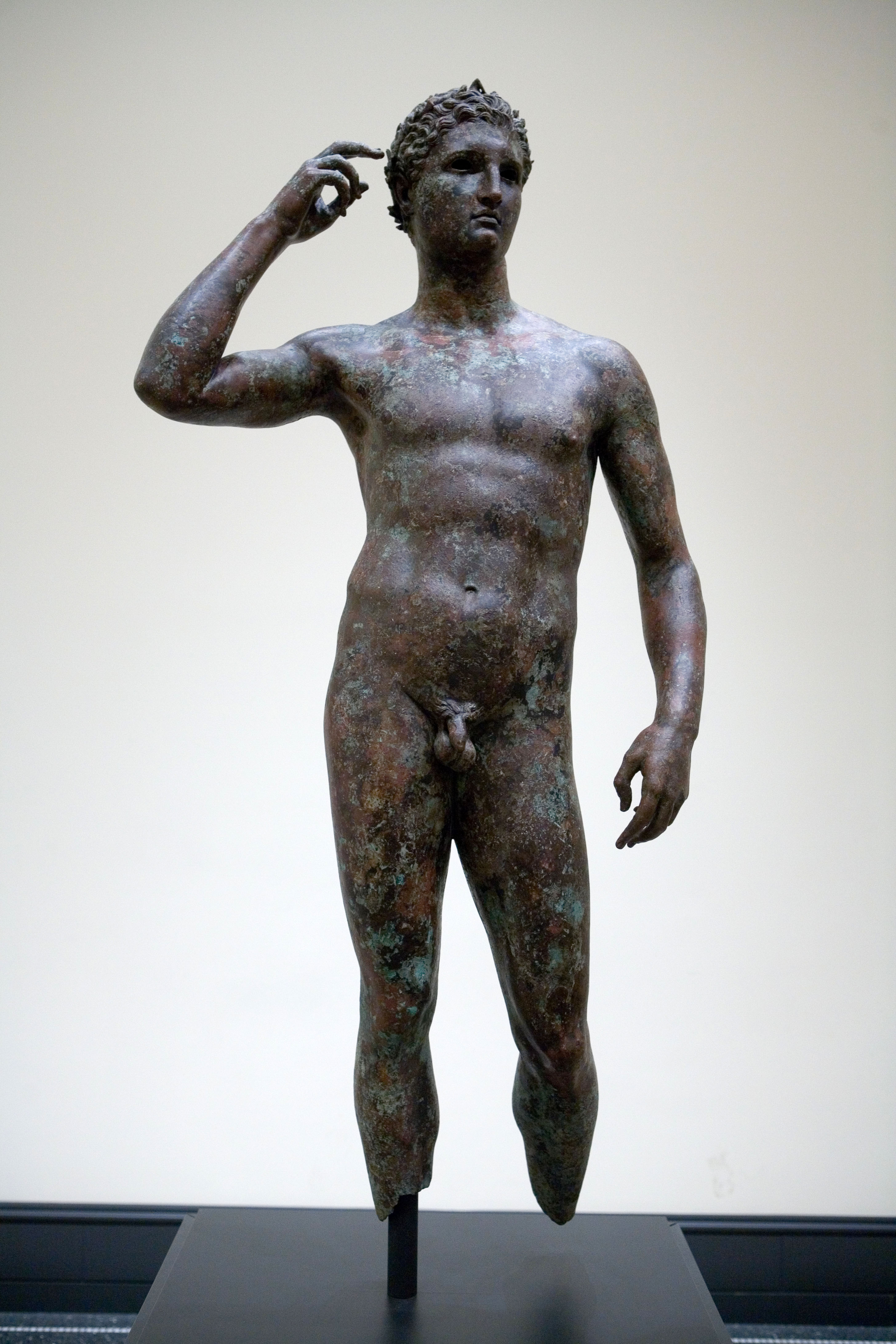 Missing the feet, ankles, eyes, part of the crown and the palm branch originally brought in the left hand. The statue is supported by a stainless steel rod inserted in his right leg.